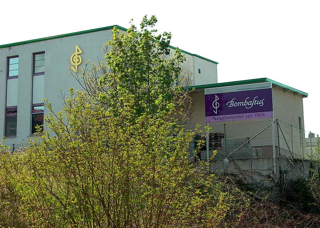 Bombastus Werke Naturheilmittel Freital Sachsen